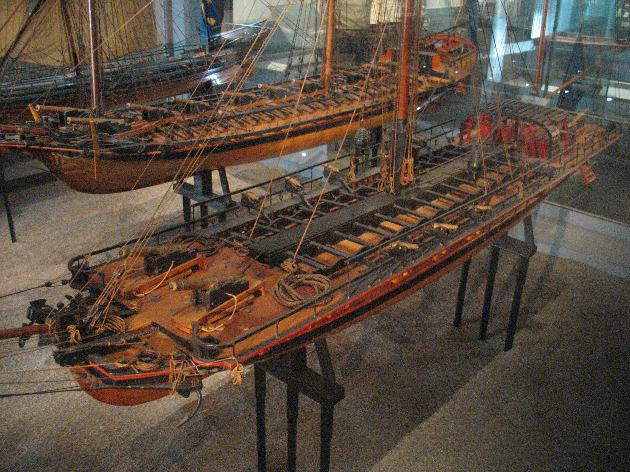 Model of the pojama Brynhilda (built 1776) at the Maritime Museum in Stockholm. Scale 1:16.